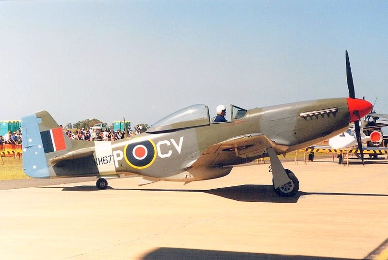 This restored CAC CA-18 Mustang warbird has been painted to represent a North American P-51 Mustang in service with No. 3 Squadron RAAF during World War II. Image scanned from a 6"x4" photograph of VH-JUC taken by YSSYguy at Avalon Airport, Victoria on 19 February 1999.